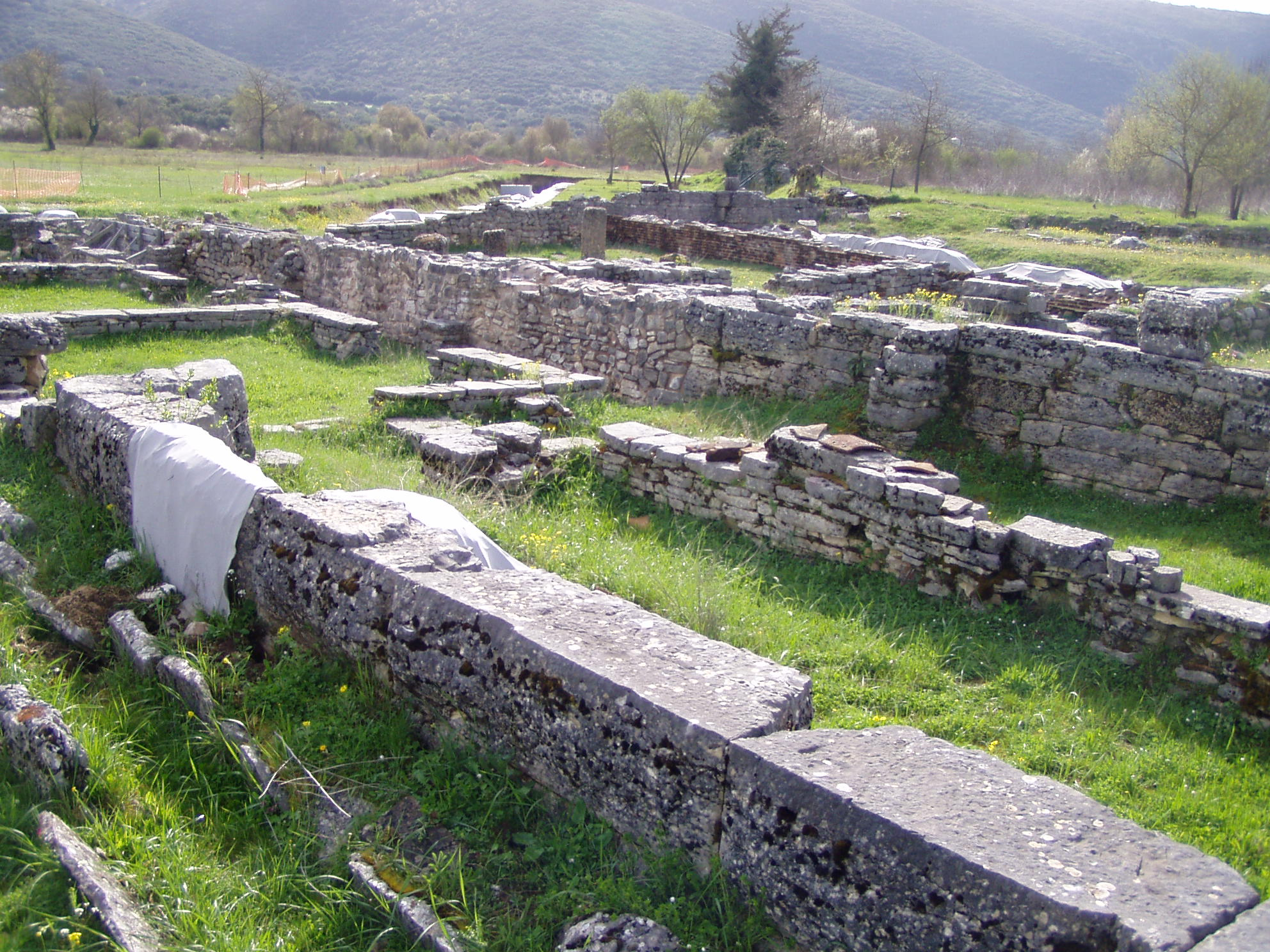 This is the Prytaneion in Dodona.